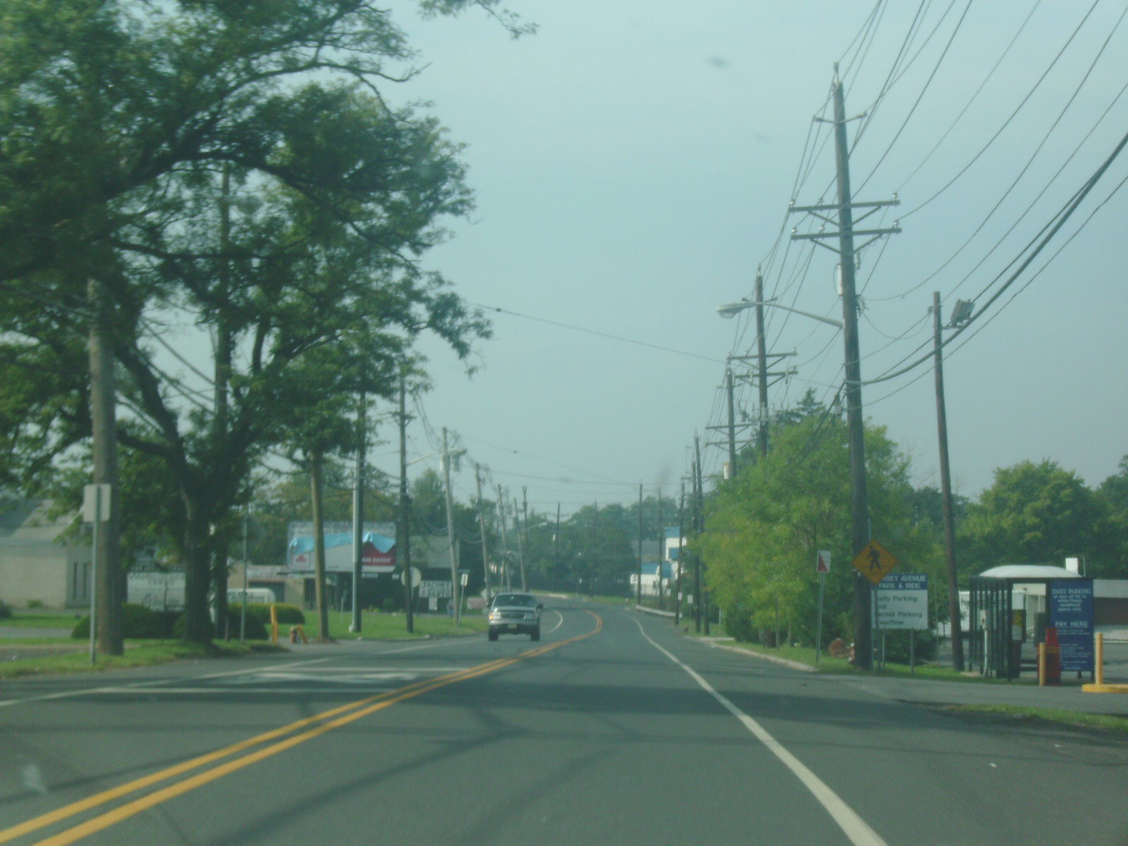 New Jersey Route 91 heading northbound near the Jersey Avenue station.